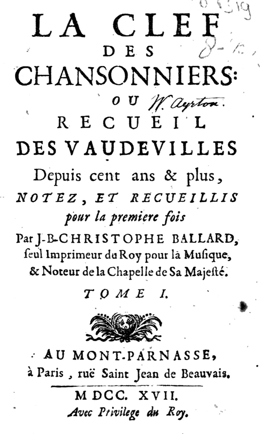 Title page of volume 1 of La Clef des chansonniers, a collection of popular French satirical songs called vaudevilles, published in Paris in 1717 by Ballard